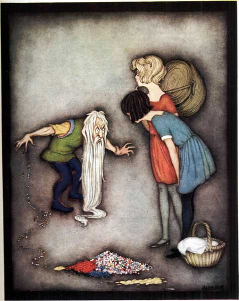 From MY BOOK OF FAVOURITE FAIRY TALES ILLUSTRATED BY JENNIE HARBOUR.